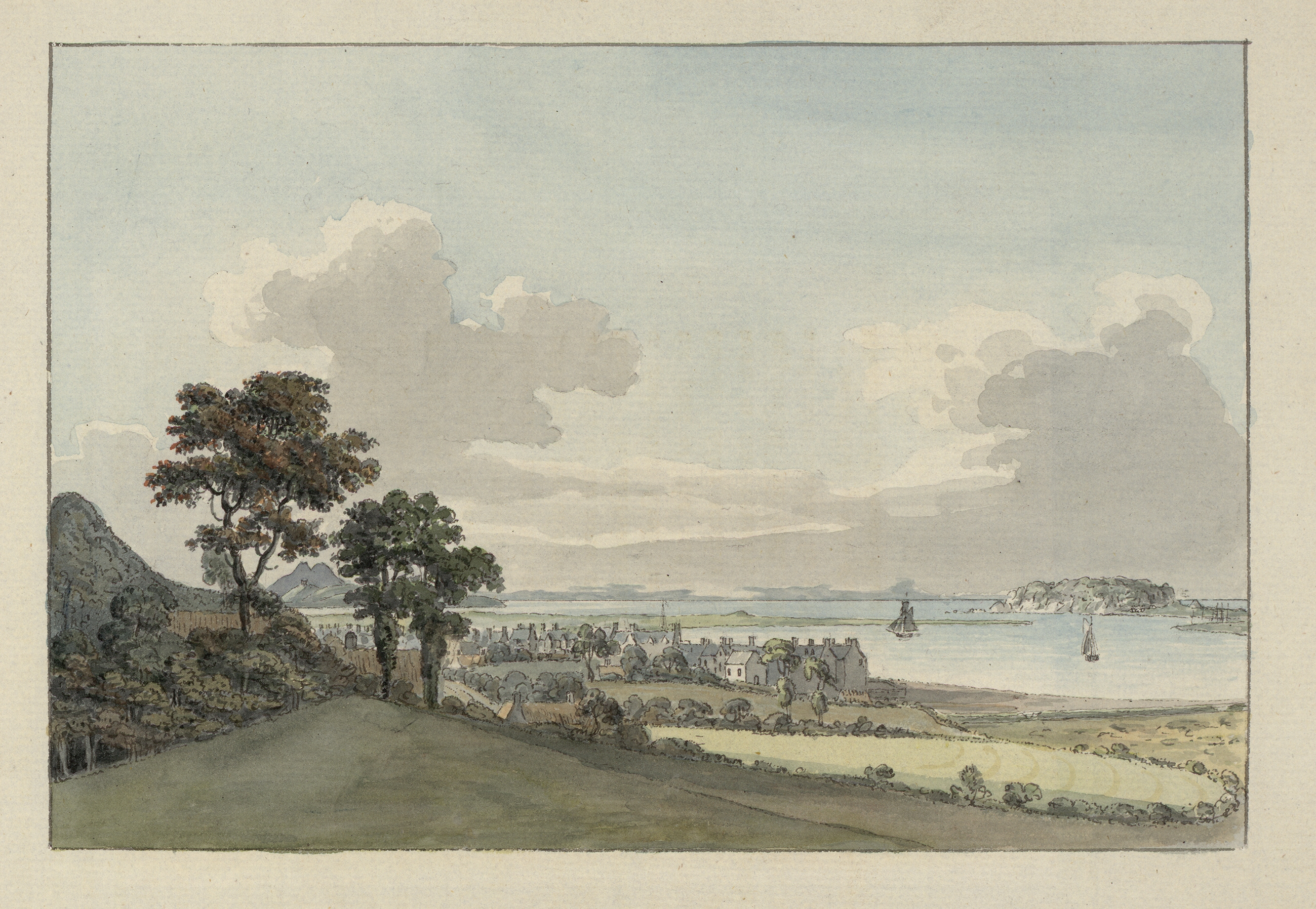 An image from a set of 8 extra-illustrated volumes of A tour in Wales by Thomas Pennant (1726-1798) that chronicle the three journeys he made through Wales between 1773 and 1776. These volumes are unique because they were compiled for Pennant's own library at Downing. This edition was produced in 1781. The volumes include a number of original drawings by Moses Griffiths, Ingleby and other well known artists of the period. Thomas Pennant (1726-1798)